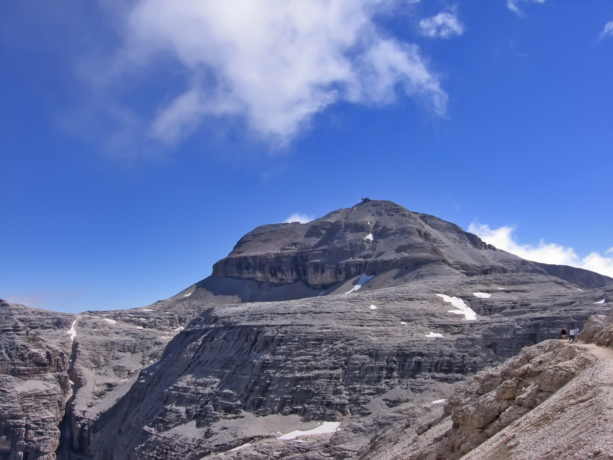 Piz Boè (3.152 m) on Sella group, Dolomites (Italy). View from forcella Pordoi.